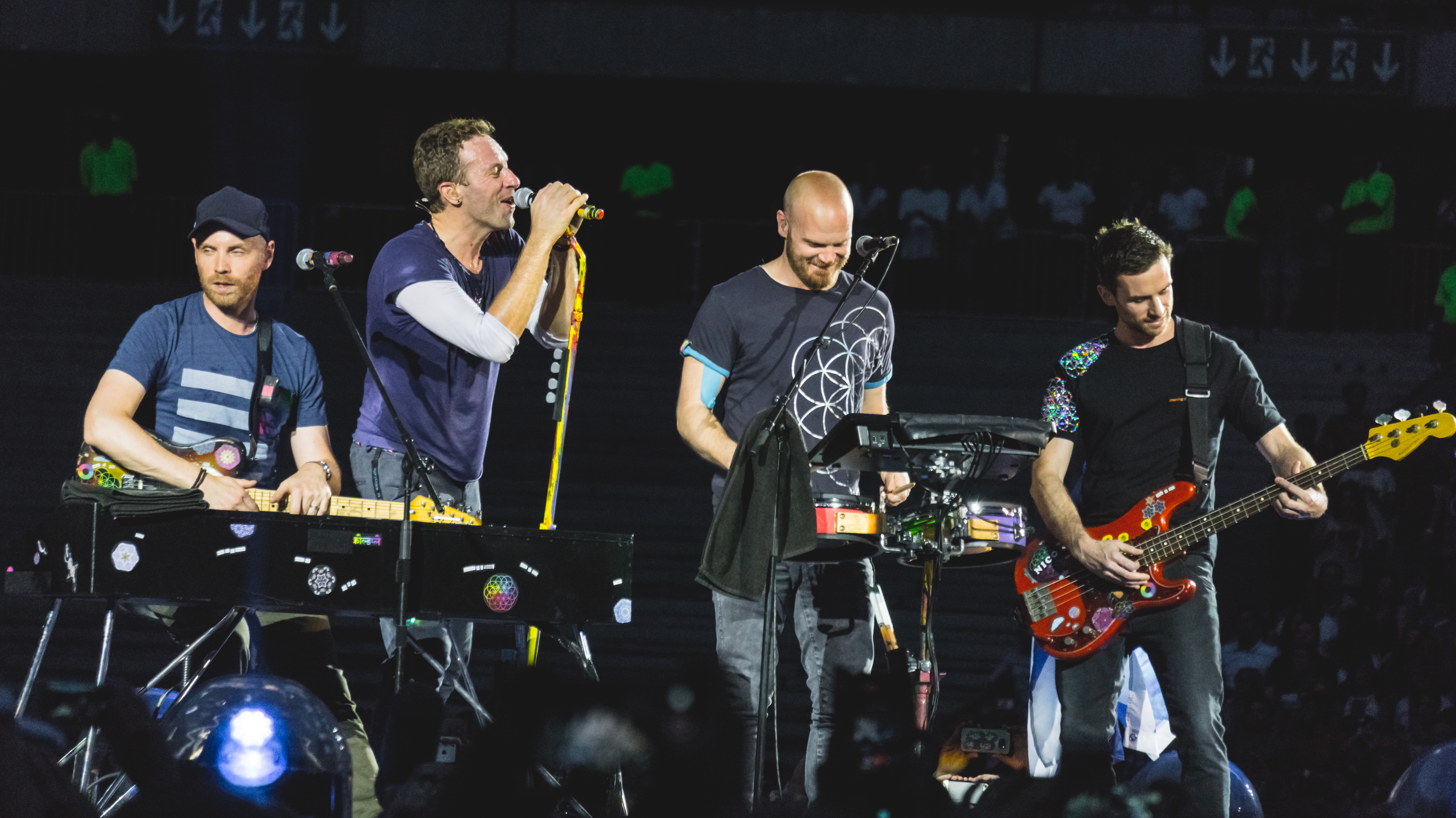 ColdplayParis160717-7